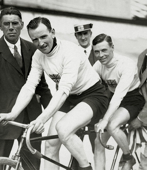 Sport, 1920 Olympic Games in Antwerp, Cycling, The Mens 2000 metres Tandem race, Great Britain's Harry Ryan and Thomas Lance, the Gold medal winners in the Tandem event